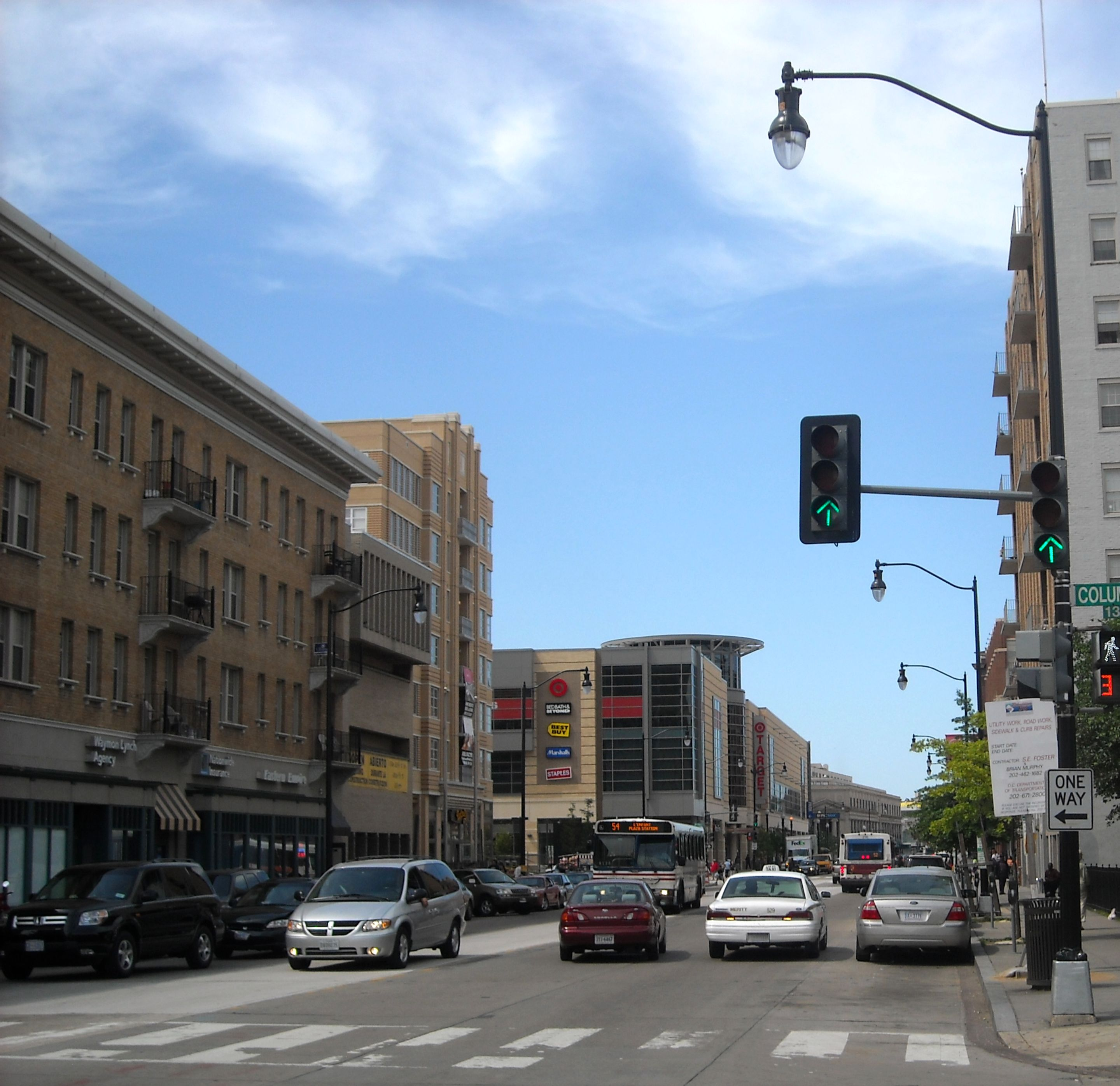 Looking north on 14th Street NW in the Columbia Heights neighborhood of Washington, D.C.